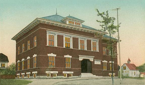 Pearl Street School, Manchester, NH; from a c. 1910 postcard. Now serves as an apartment building.